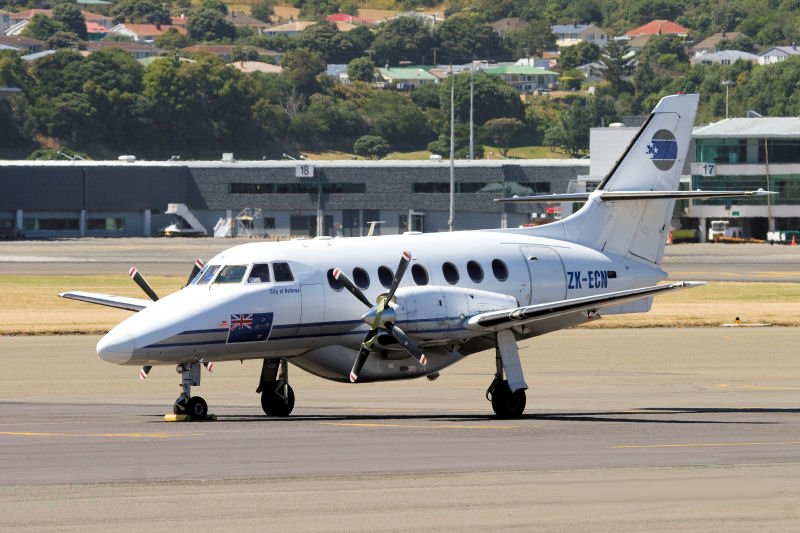 British Aerospace Jetstream 32EP Series 3200 Model 3201 ZK-ECN